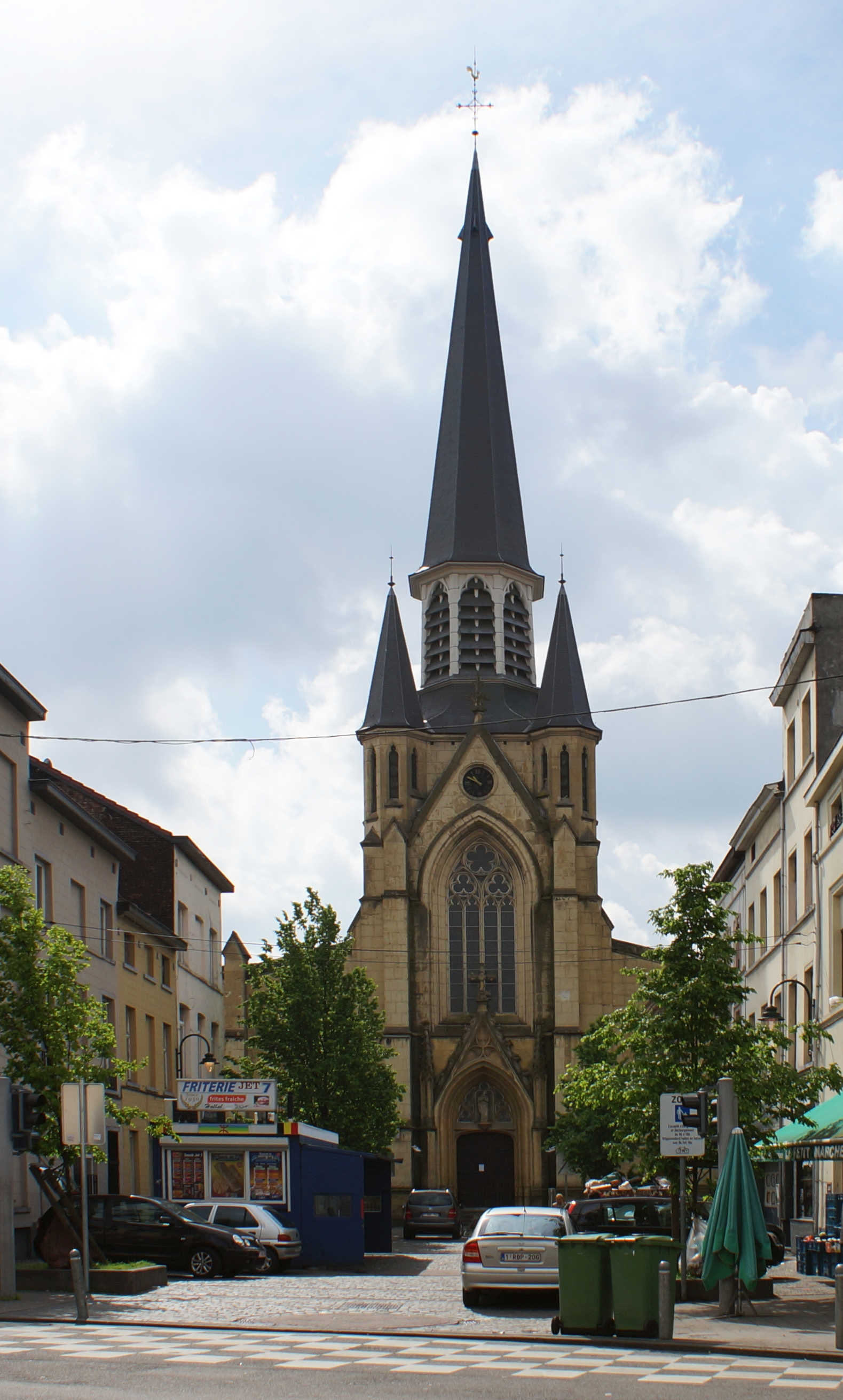 Our Lady Immaculate Church - Anderlecht - Front view - Built by the architects H. Raeymaeckers, E.AJ Cels and Jules-Jacques Van Ysendyck